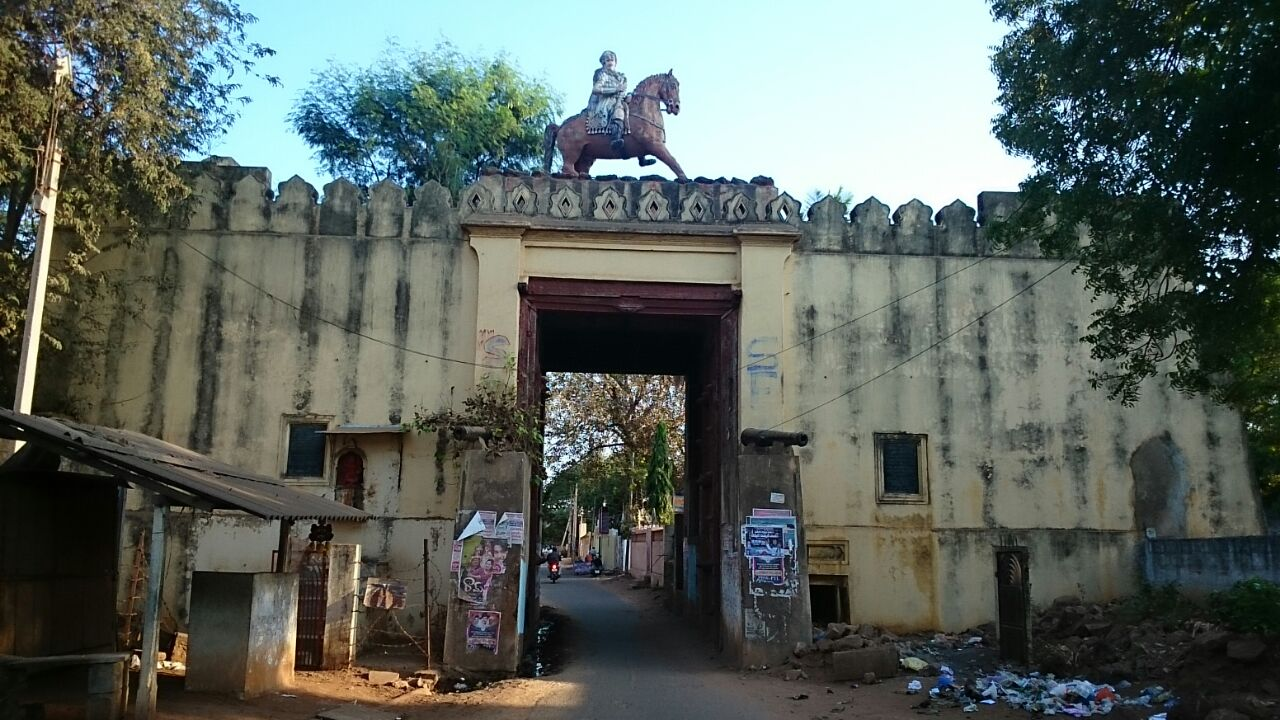 Nuzvid Fort Gate North and South situated in Sy.No.463